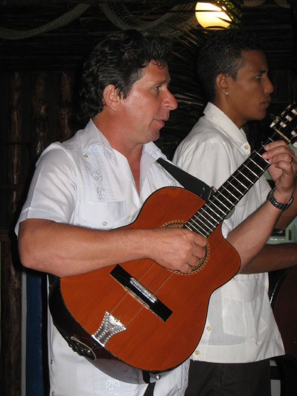 Tres Cubano.